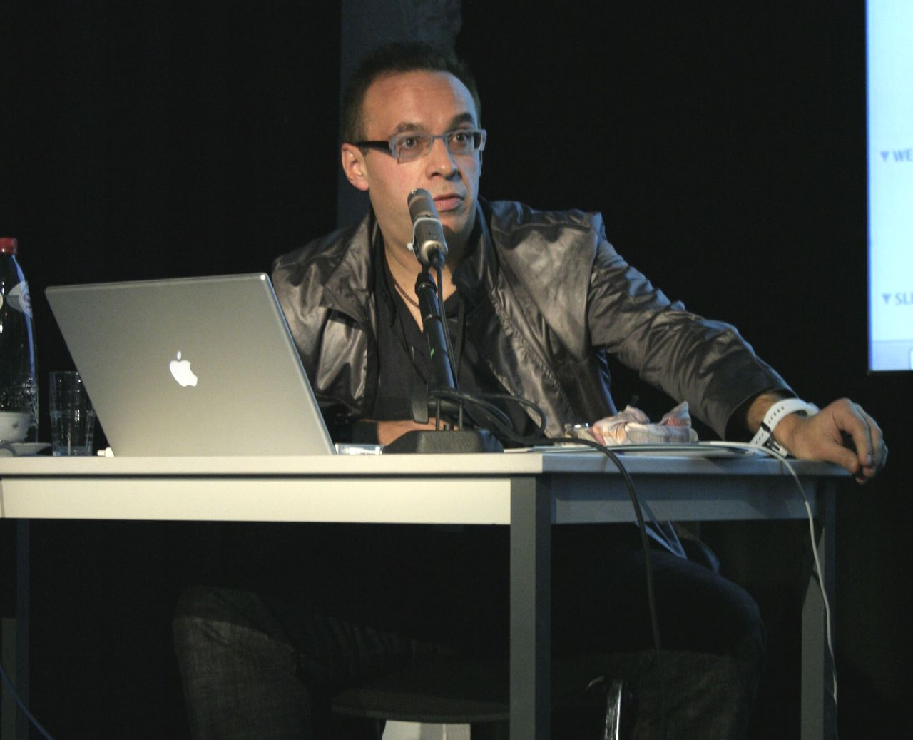 Lev Manovich at Video Vortex in Brussels in October 2007